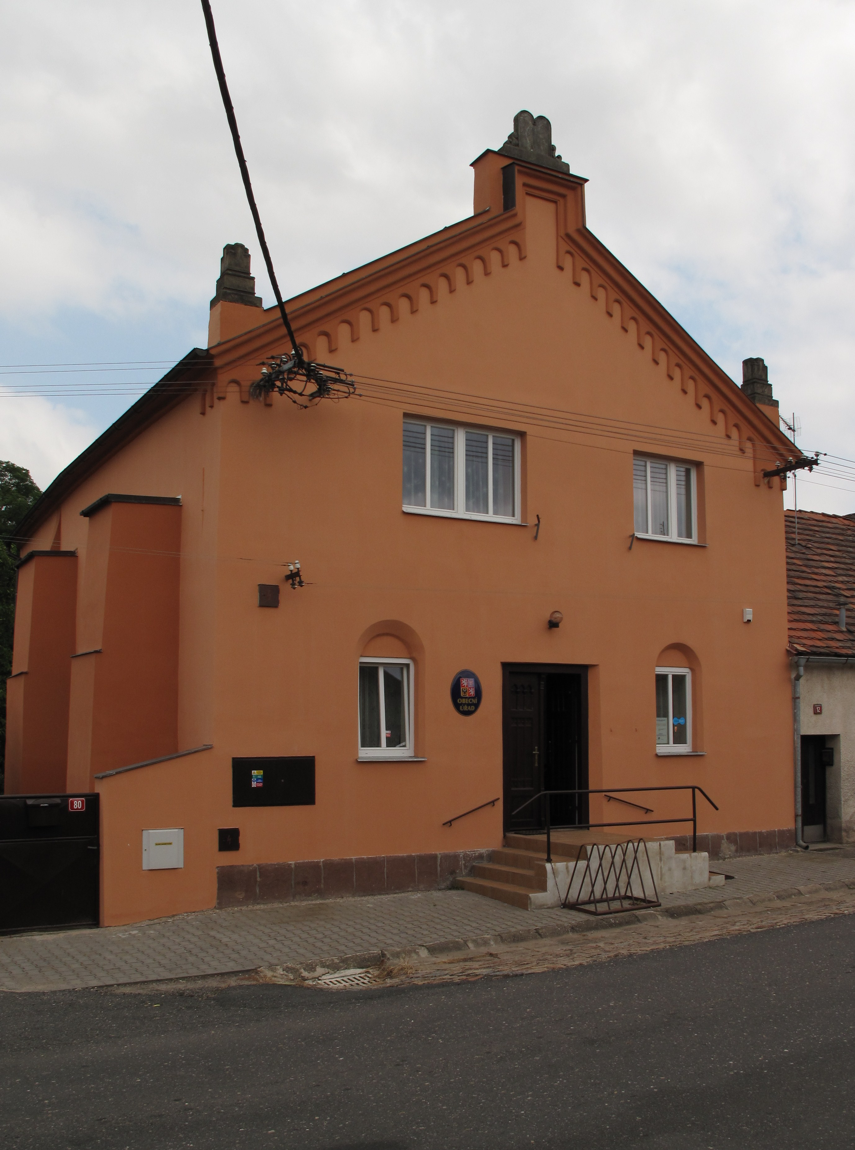 This photograph was taken within the scope of the second year of the 'Czech Municipalities Photographs' grant.